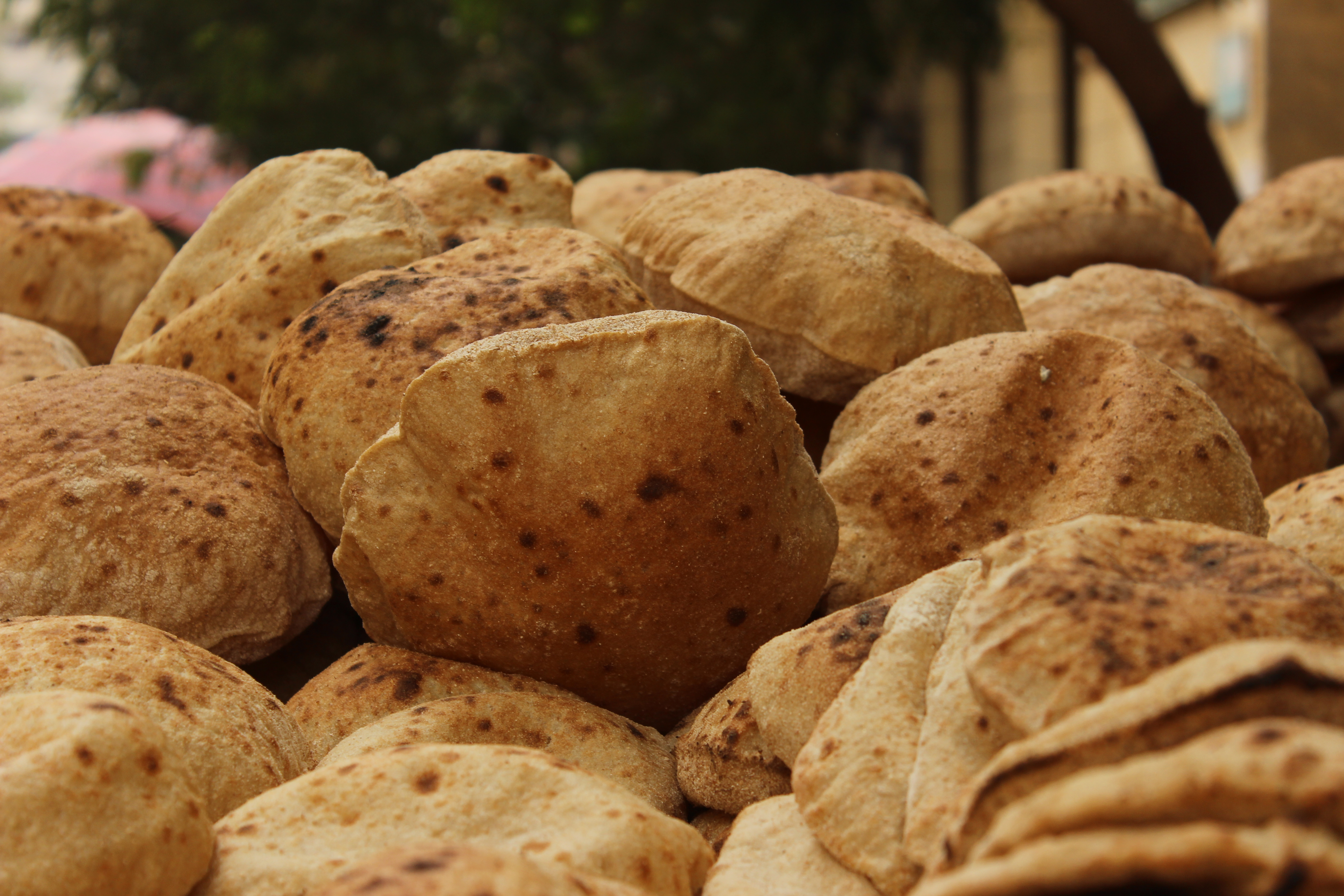 This is an image of food from Egypt